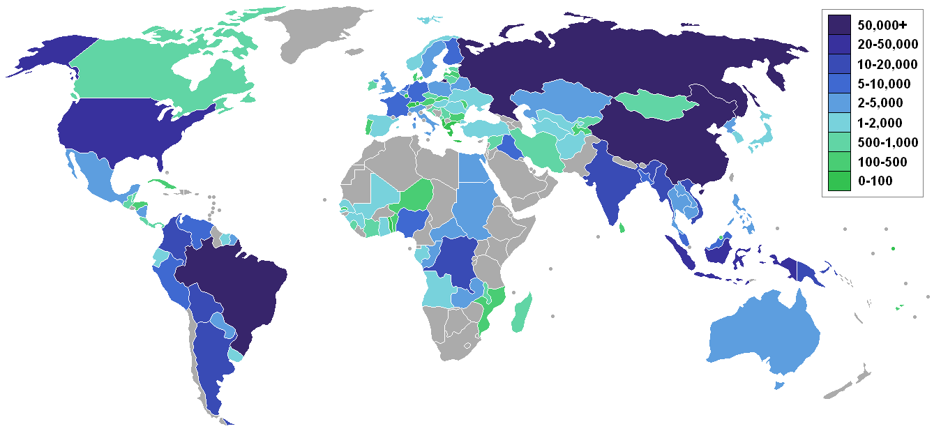 Waterways in km, as listed on the CIA factbook. (Grey indicates no data) Most figures are given a 2005 date. Uses Image:BlankMap-World-v5.png